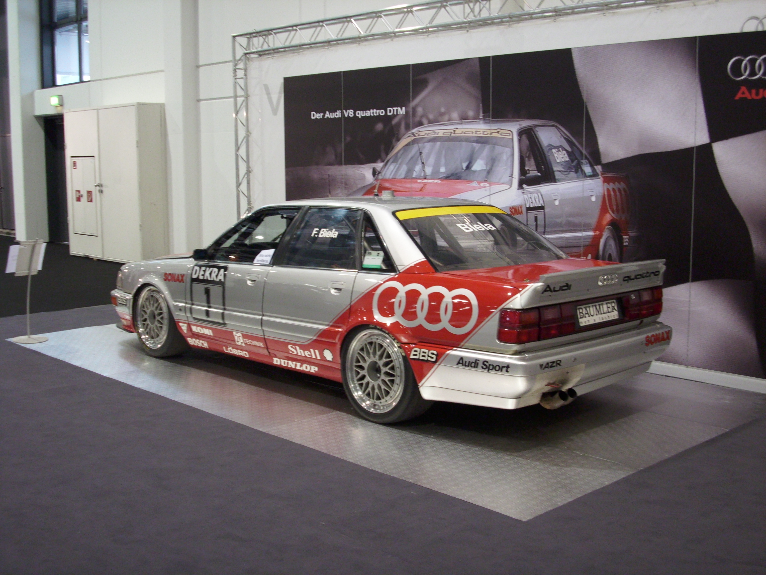 A real DTM car, driven by Frank Biela, at the Motorwelt Berlin (100 years anniversary of Audi).